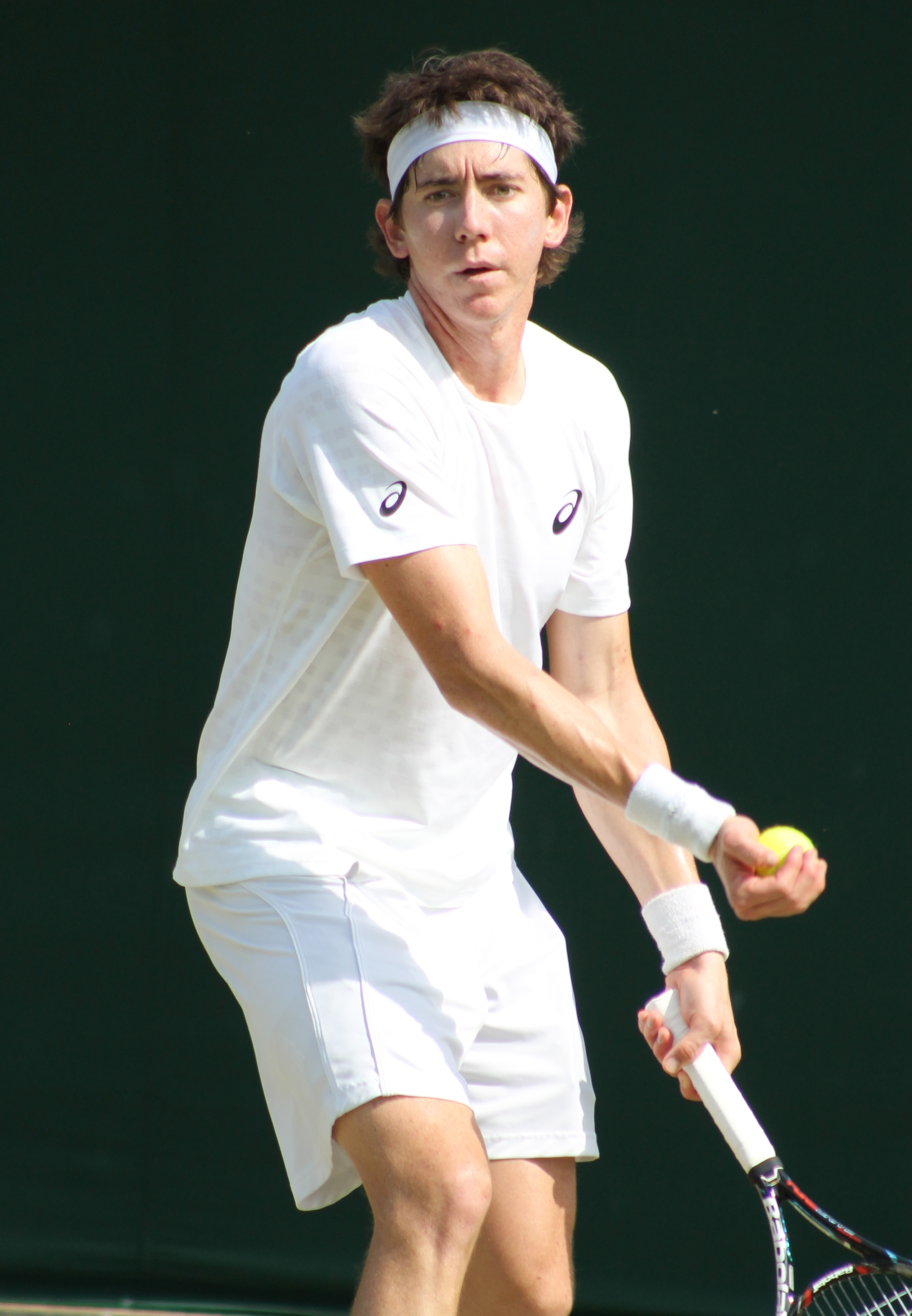 Smith WM13-005